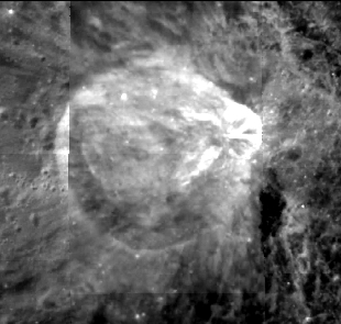 Clementine Greyscale Basemap: Mercator projection dynamically created by USGS lunar Web Map Service.